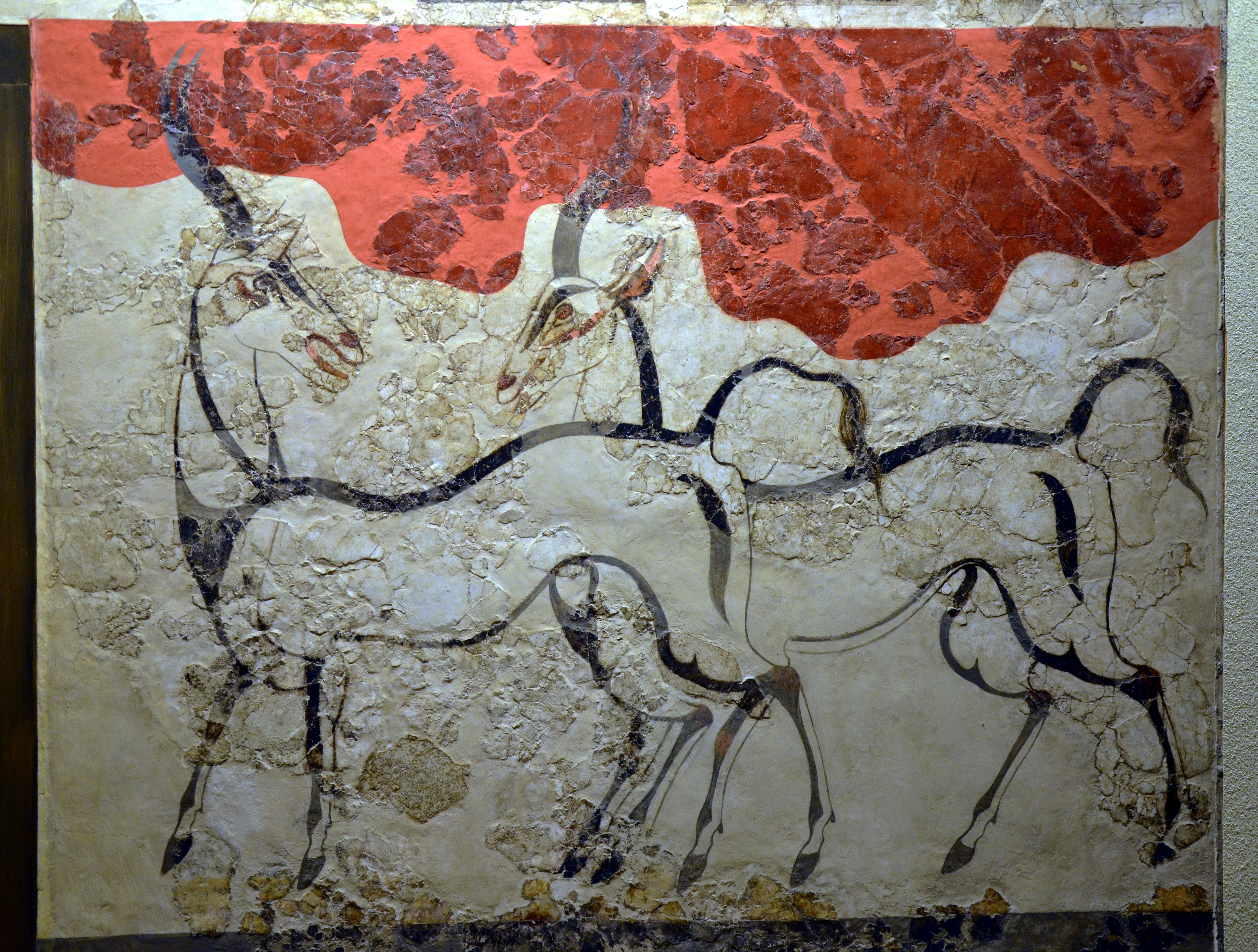 This fresco was found during the excavations conducted by Spyridon Marinatos from 1967 to 1974 at Akrotiri on the southern coast of the ringed islands of Santorini (the Pompeii of the Aegean) which was covered by thick deposits of ash and pumice from the great Bronze Age eruption of the Santorini volcano that occurred between 1627 and 1600 BC. It was discovered on the west wall of room 1 in the Beta Building and is 2.0 meters (6.6 feet) wide and 2.75 meters (9.0 feet) high. This exquisite fresco is on display at the P. M. Nomikos Exhibition Center's Thera Wallpainting Exhibition Hall in the town of Fira which houses all of the restored frescoes found during the excavations at Akrotiri.